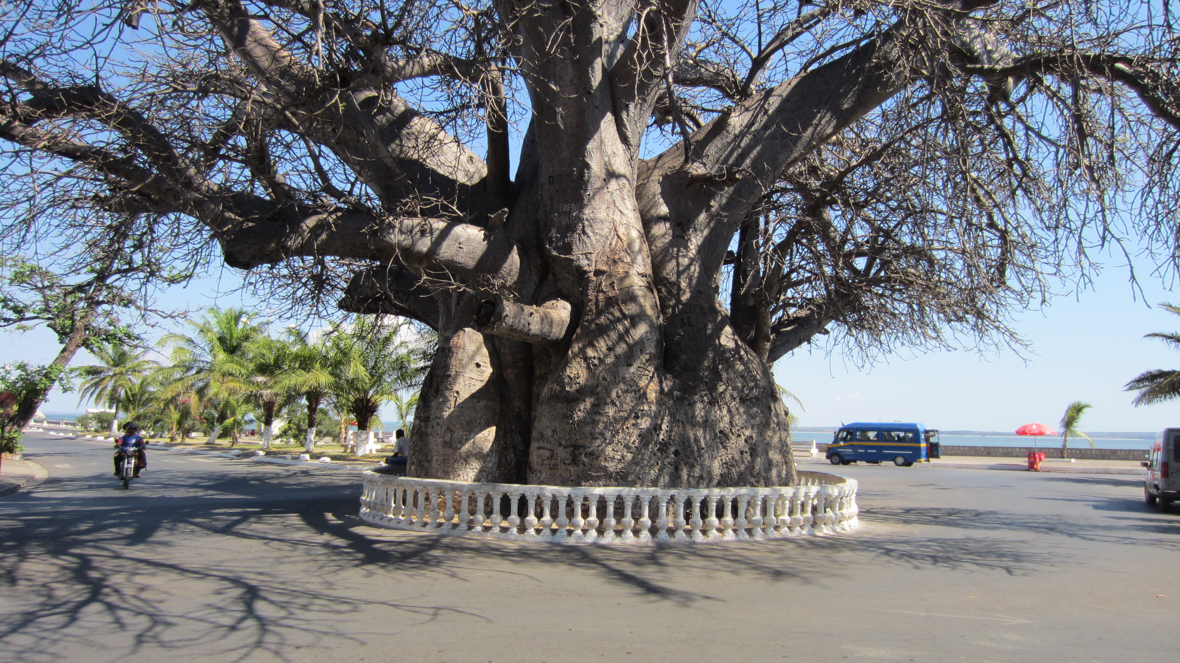 Very old baobab tree by the sea.